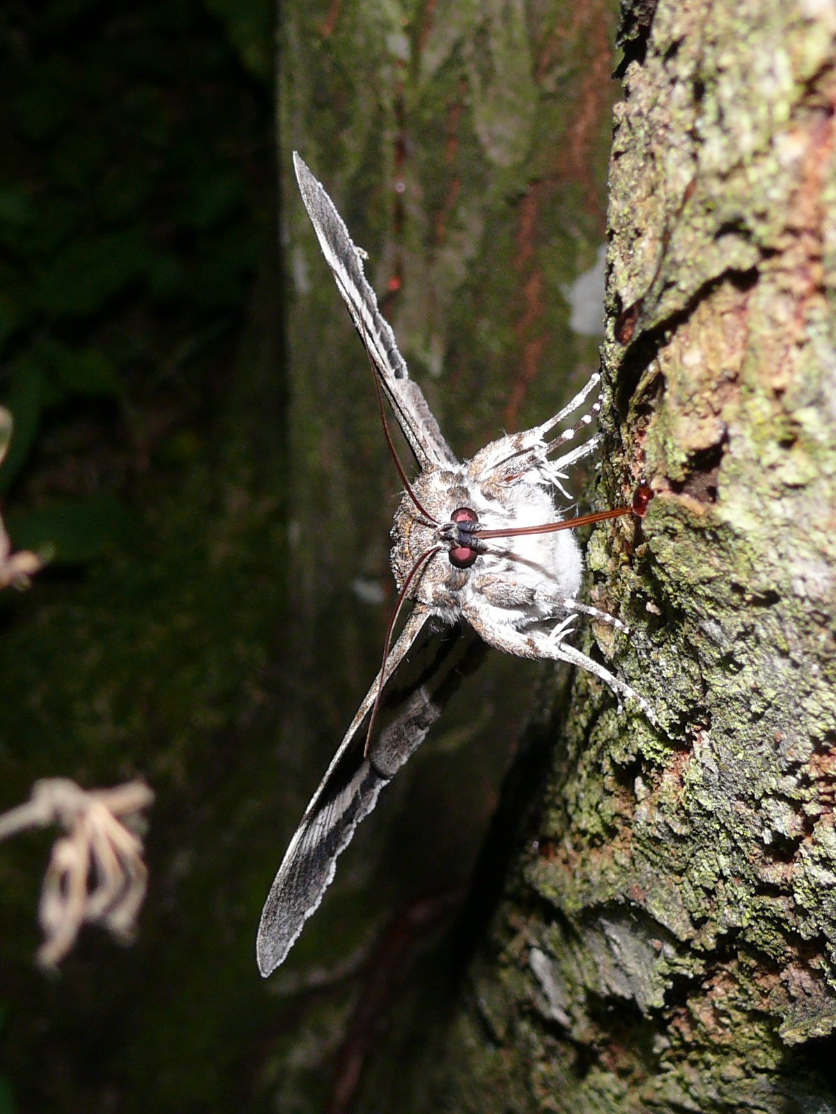 Blue Underwing, Perlacher Forst, Munich Aufgenommen bei einer Exkursion des Arbeitskreises Schmetterlinge der Kreisgruppe München beim Landesbund für Vogelschutz (LBV).